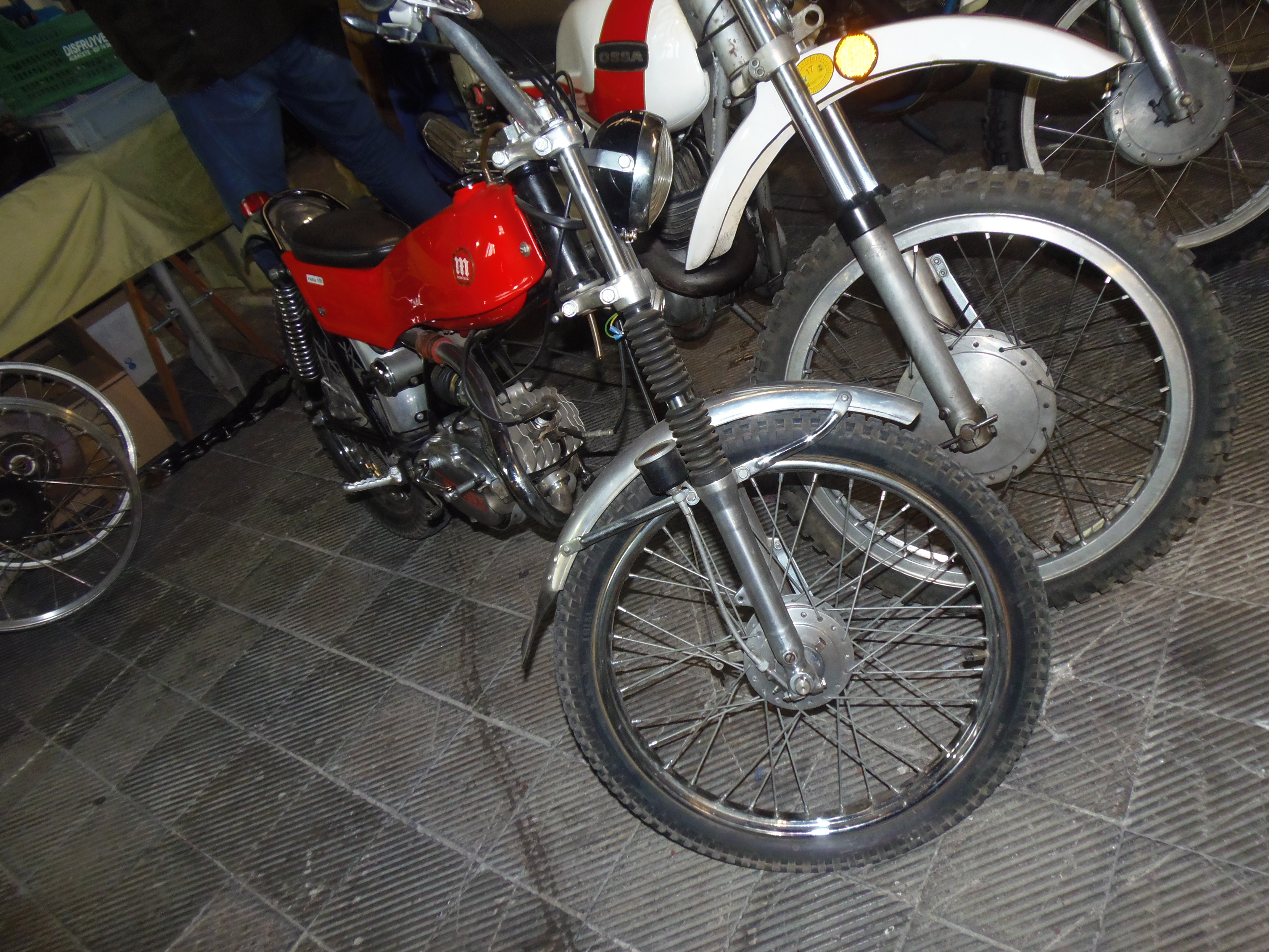 Montesa Cota 49, 1976